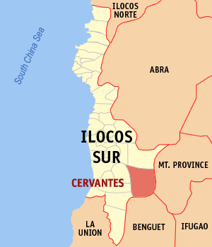 Map of Ilocos Sur showing the location of Cervantes